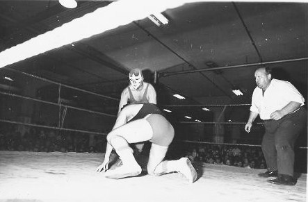 Caballero Rojo y William Boo Titanes